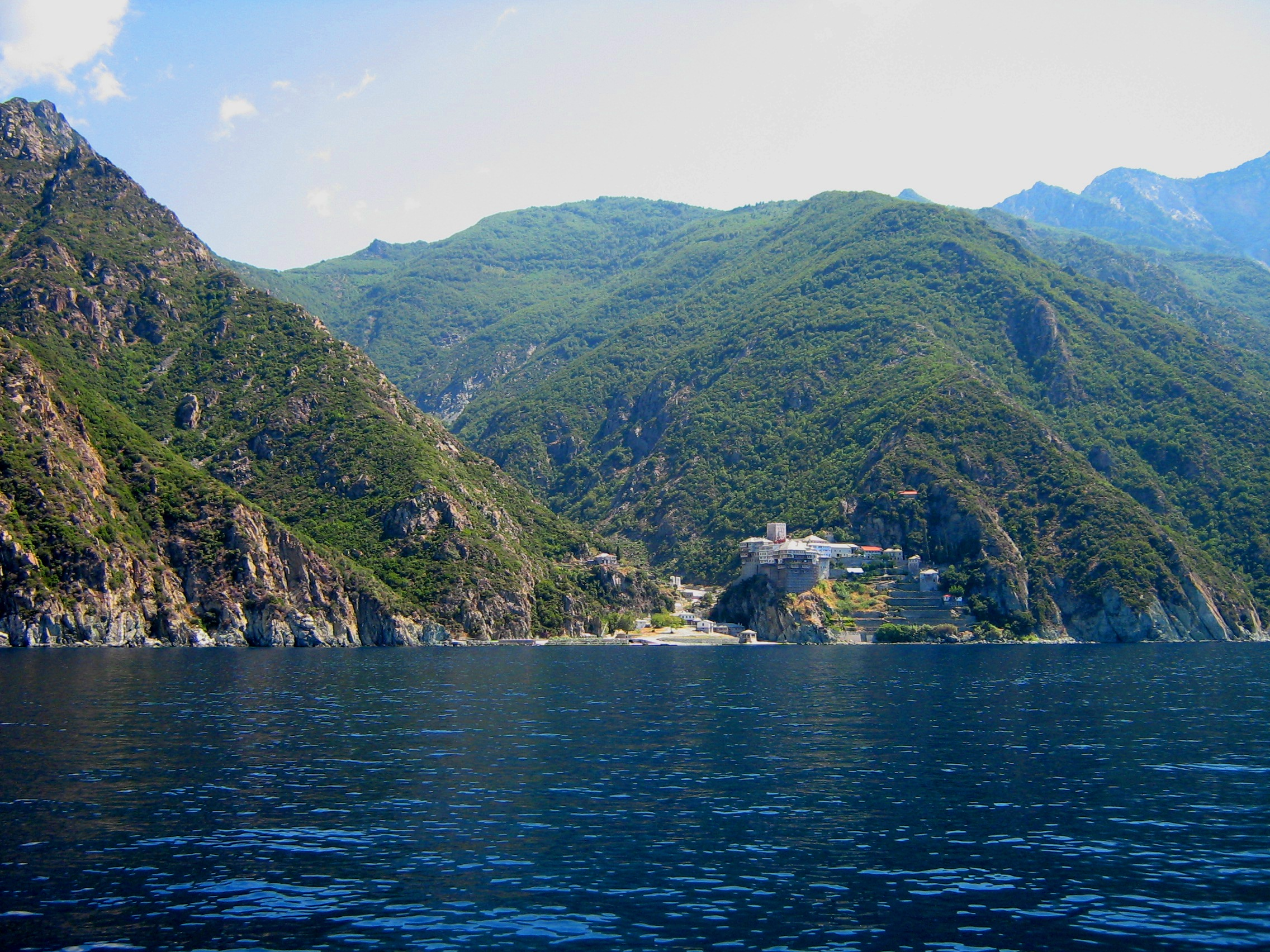 Mount Athos, Agiou Dionysiou monastery